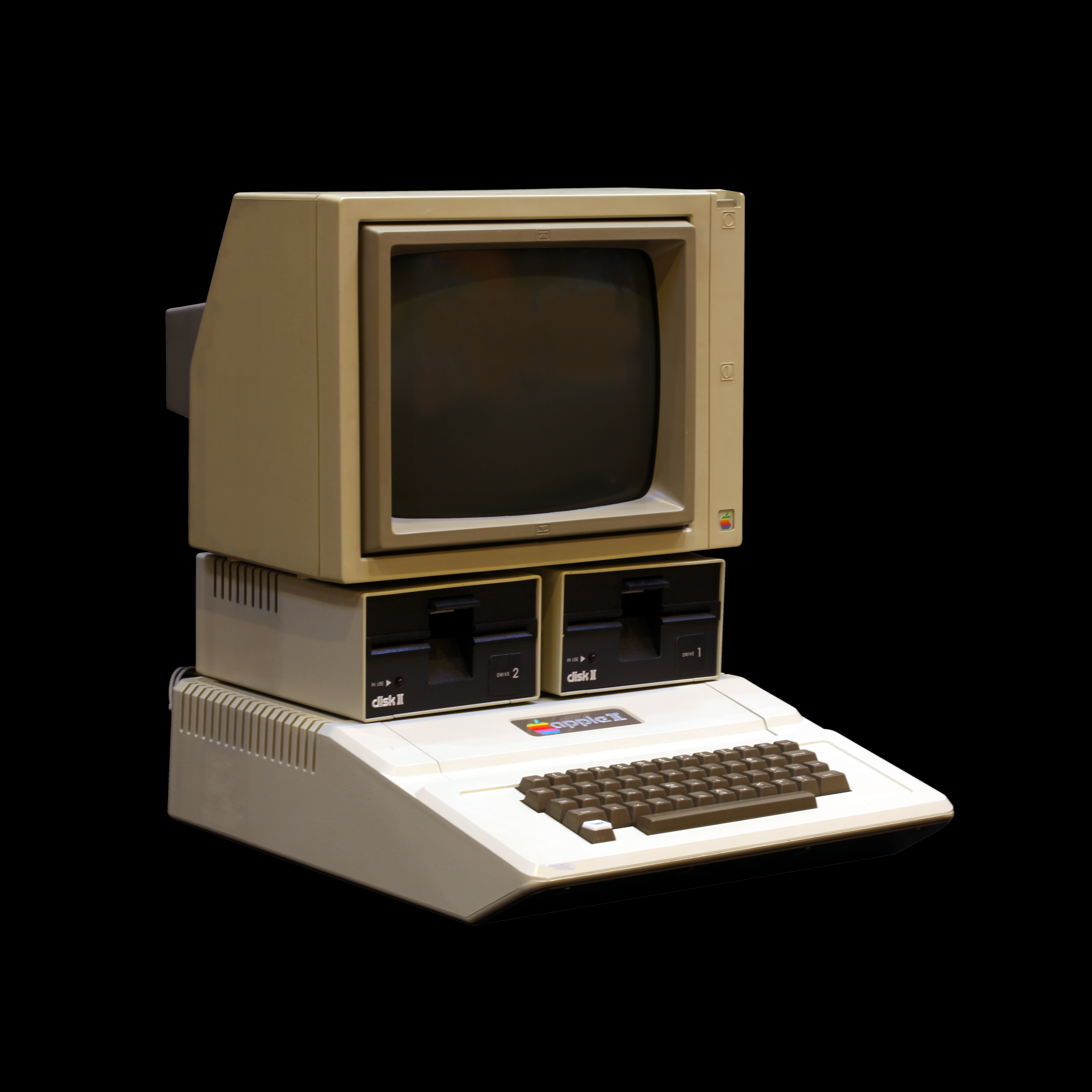 Apple II computer. On display at the Musée Bolo, EPFL, Lausanne.